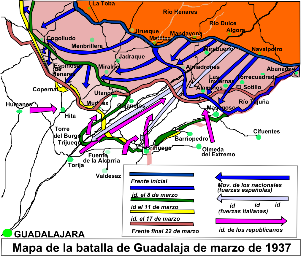 Maps of battle of Guadalajara.